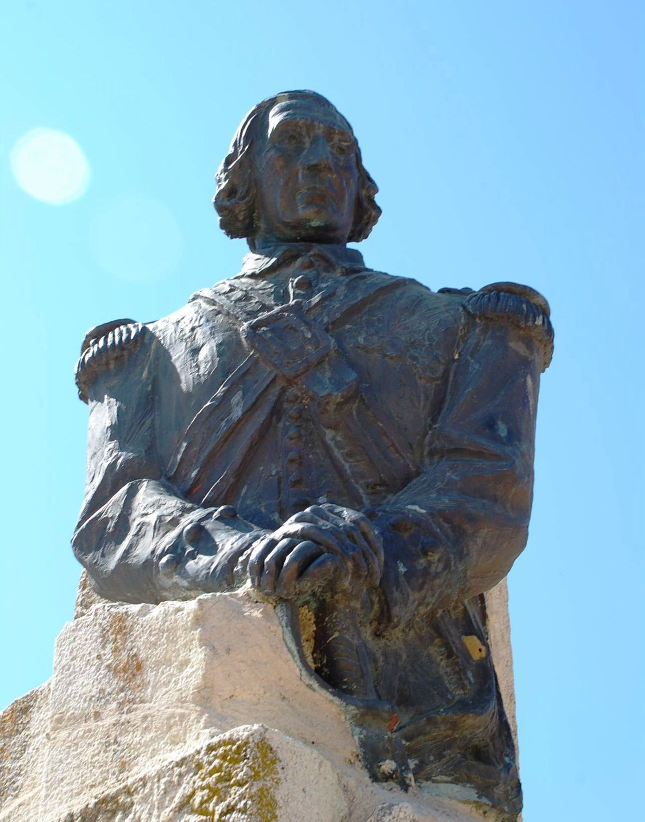 Spanish Captain D. Juan de San Martín, born in Cervatos de la Cueza (Palencia, Castile and León) on 1728-2-3, father of Colonel D. Manuel Thaddeus, Commander D. Juan Fermín, and of the General D. José de San Martín, forger of the Argentine nation.